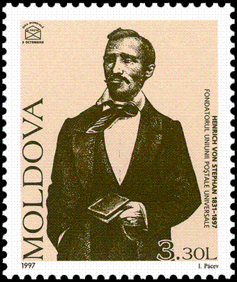 Stamp of Moldova